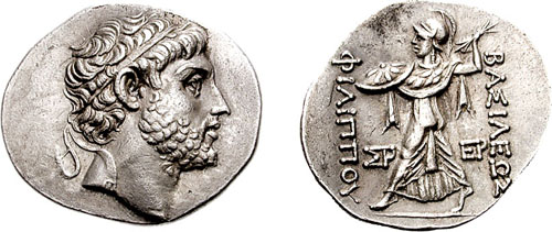 KINGS of MACEDONIA. Philip V. 221-179 BCE. AR Tetradrachm Pella or Amphipolis mint. Struck circa 220 BCE. Diademed head right / ΒΑΣΙΛΕΩΣ ΦΙΛΙΠΠΟΥ Athena Alkidemos walking left, brandishing thunderbolt in her right hand, holding shield decorated with star on her left arm; ΣΡ monogram to inner left, ΕΡ monogram to inner right